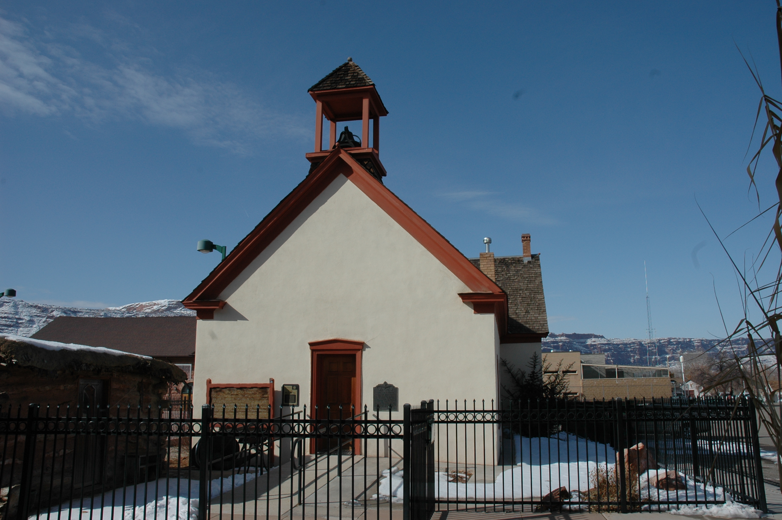 The Moab LDS church, the first meetinghouse of The Church of Jesus Christ of Latter-day Saints in Moab, Utah, United States, now houses a Daughters of Utah Pioneers museum.